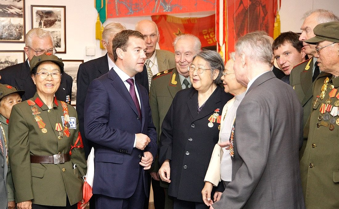 Dmitry Medvedev meeting with Russian and Chinese World War II veterans. At the center of picture is general Makhmut Gareev.